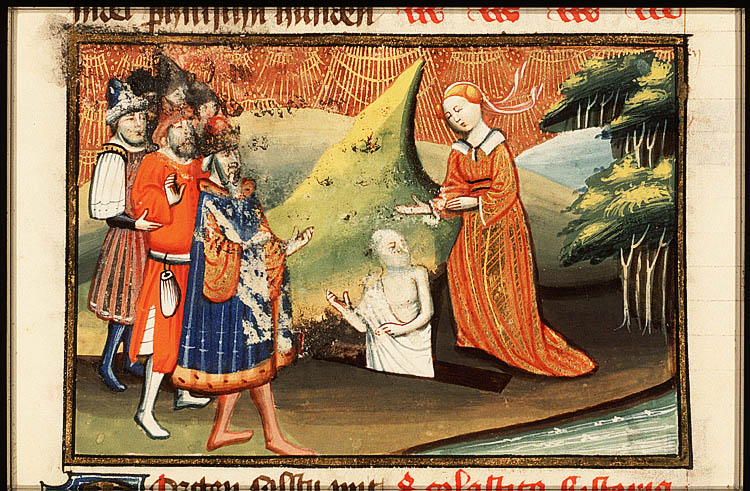 Saul and the Witch of Endor (Illuminated Manuscript)